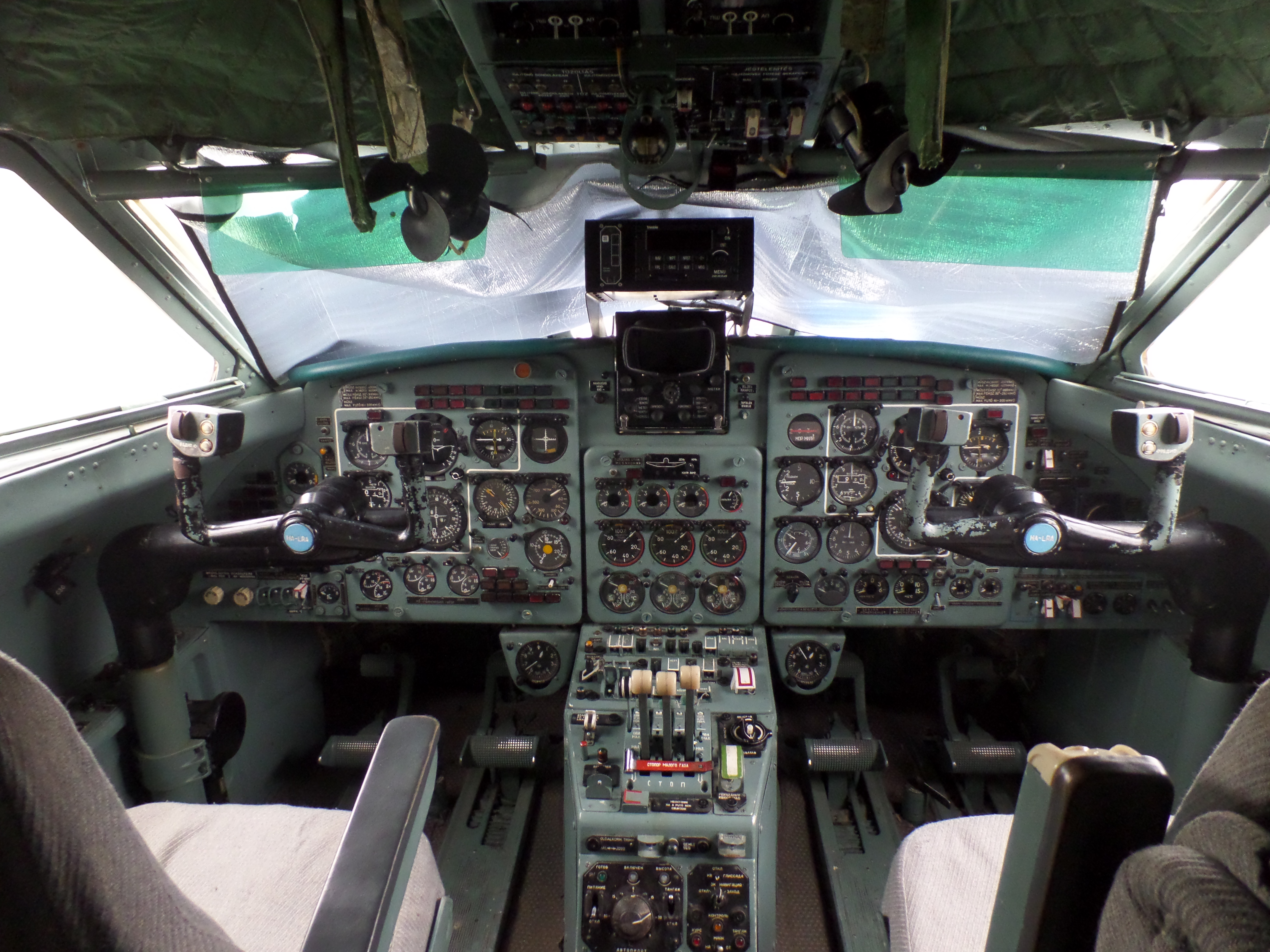 Cockpit of Linair Yakovlev Yak-40 HA-LRA at Aeropark Hungary on 20 October, 2016.